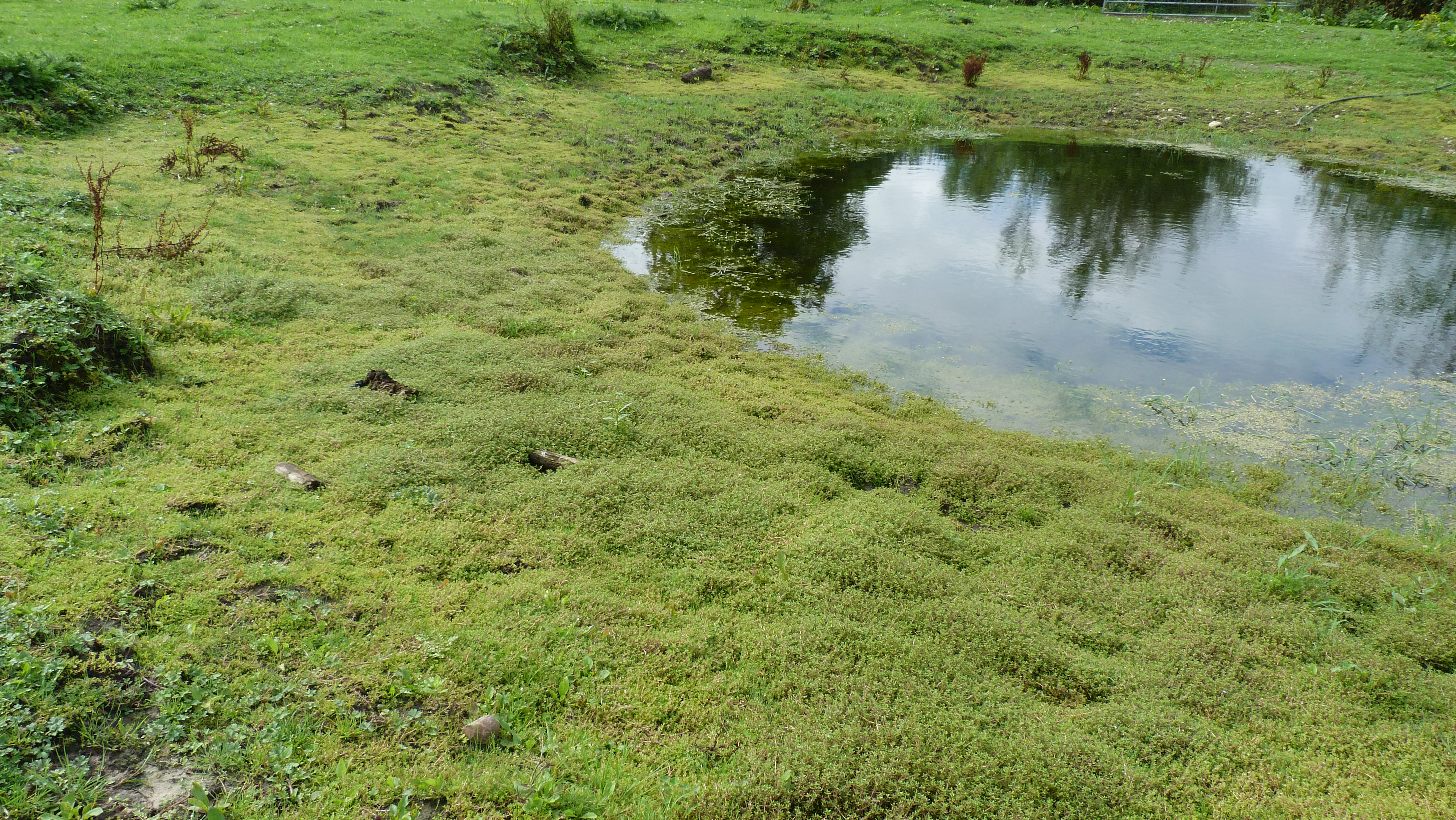 Crassula helmsii